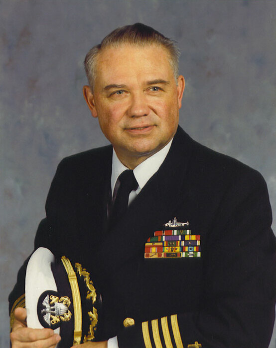 Official photo, U.S. Navy, to be used with article on Lester Westling.